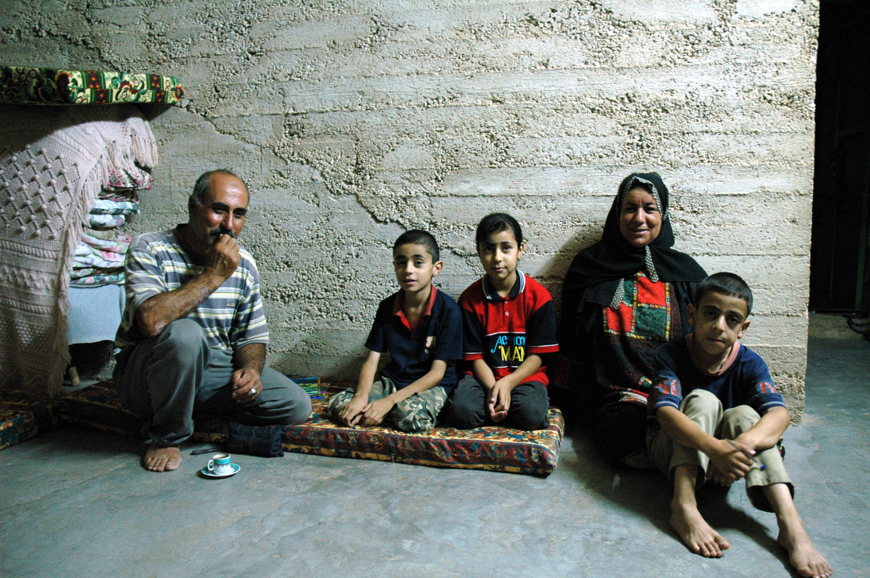 A Palestinian family in Yanoon.